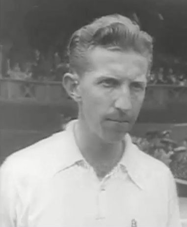 Don Budge, American tennis player, Wimbledon singles Tennis champion 1937 and 1938